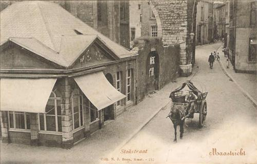 Stokstraat, Maatricht, Netherlands around 1900